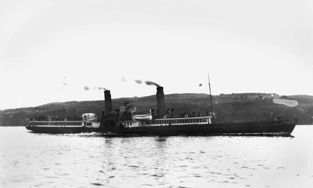 Paddle steamer Iona (ship) 1864 - 1936